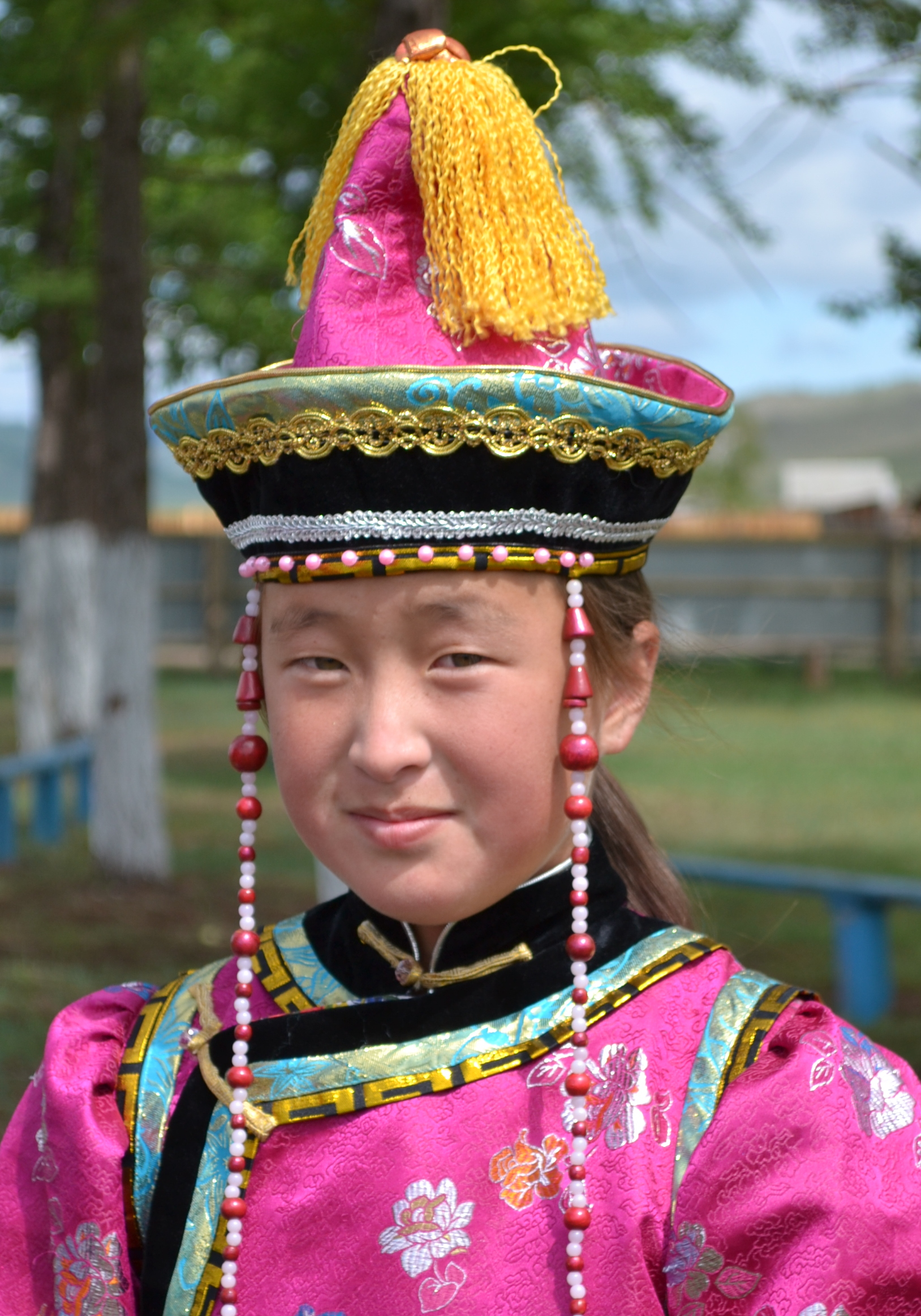 Sartuul - Mongol clan, which came to the territory of Buryatia in the early 18th century. They live mainly in Dzhida districts. Tsagatuy village.